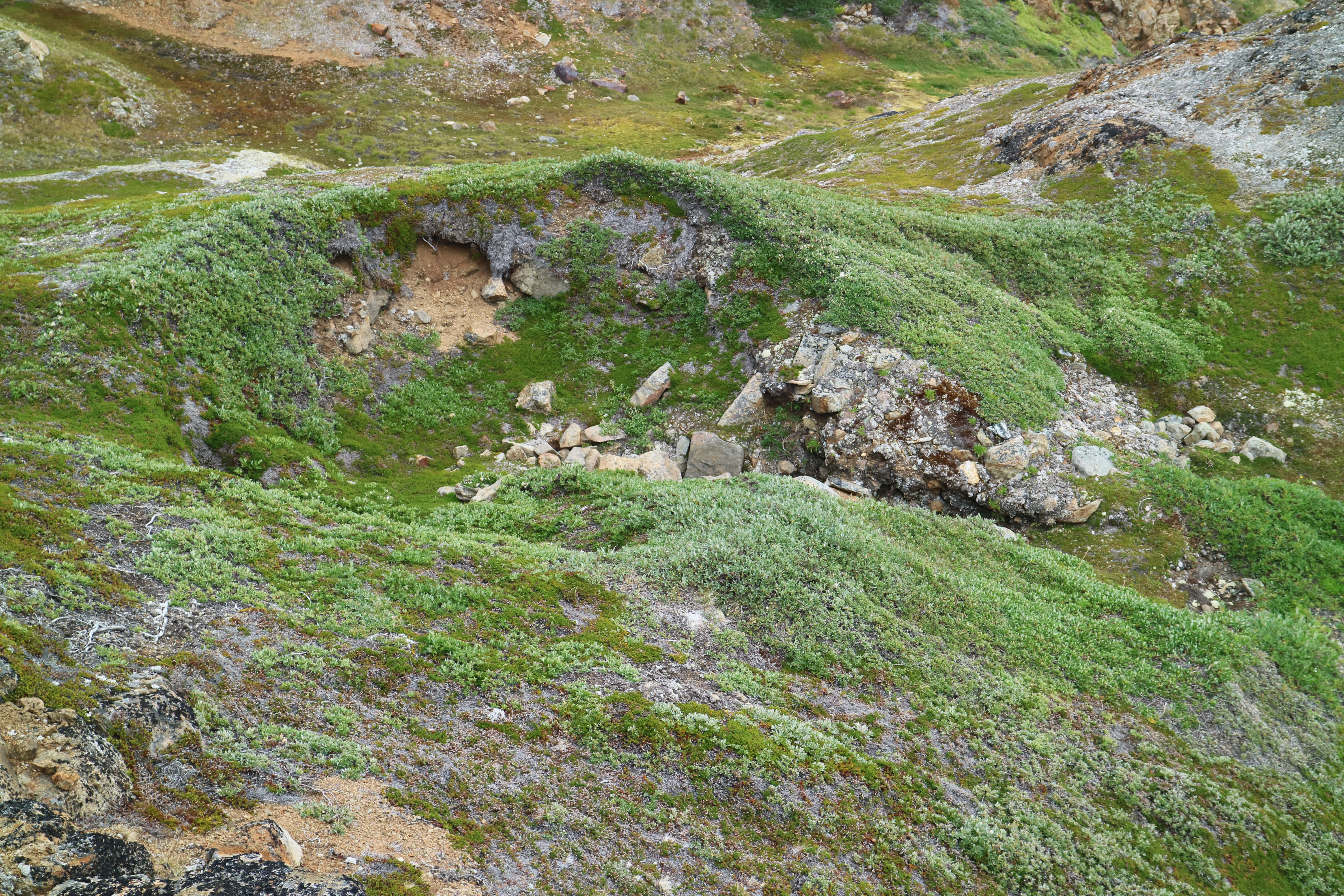 Ruin of an Inuit peat hut of the abandonned settlement of Sivinganeq at the West coast of Ammassalik Island, South East Greenland